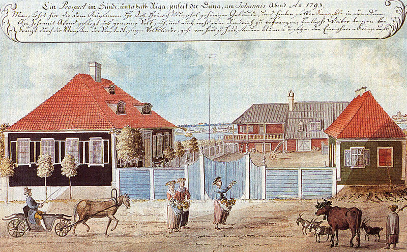 Muižeļa house, Riga